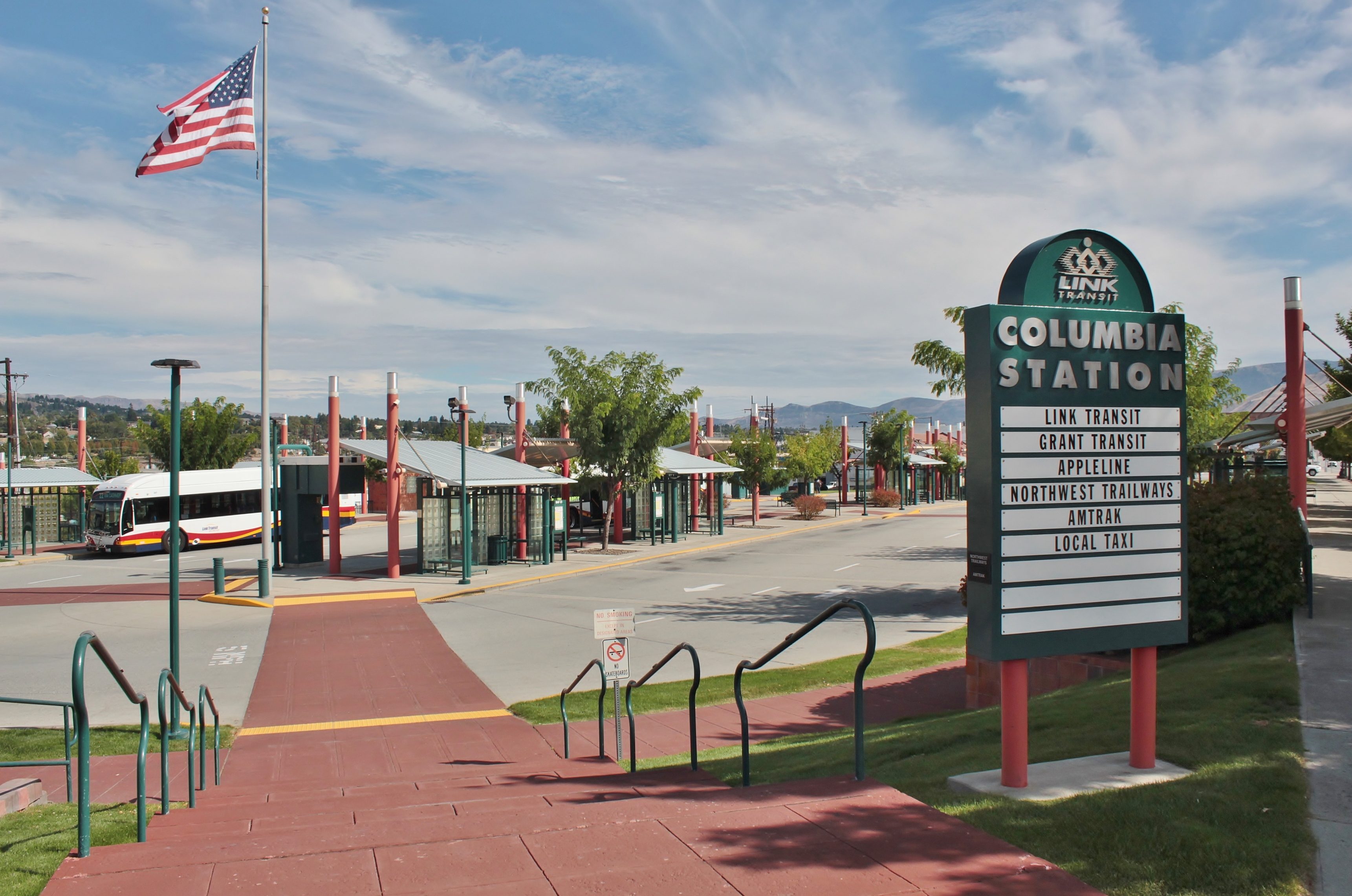 The bus bays and signage at Columbia Station, a bus and train station in Wenatchee, Washington.